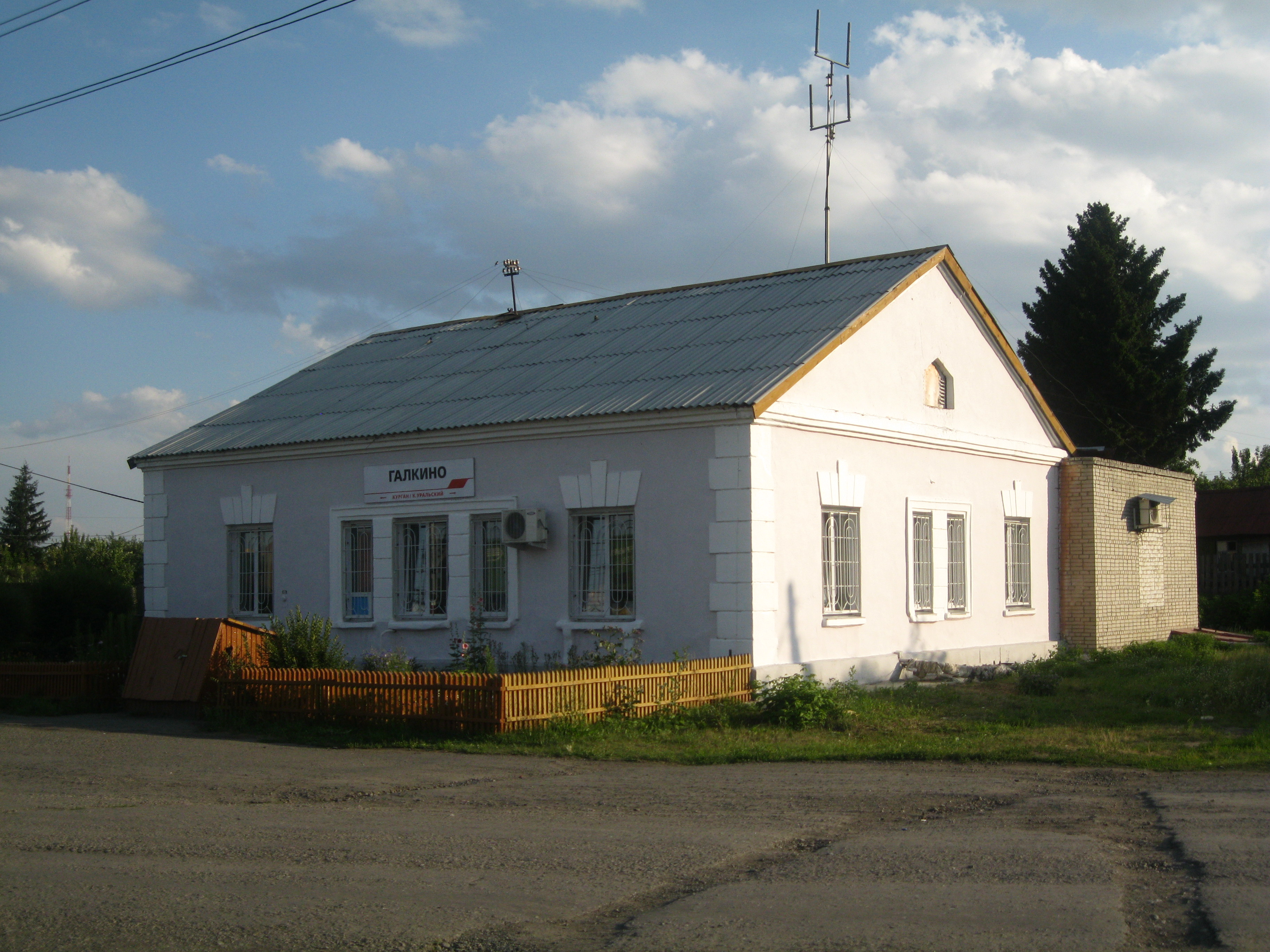 Galkino railway station in Kurgan, Russia